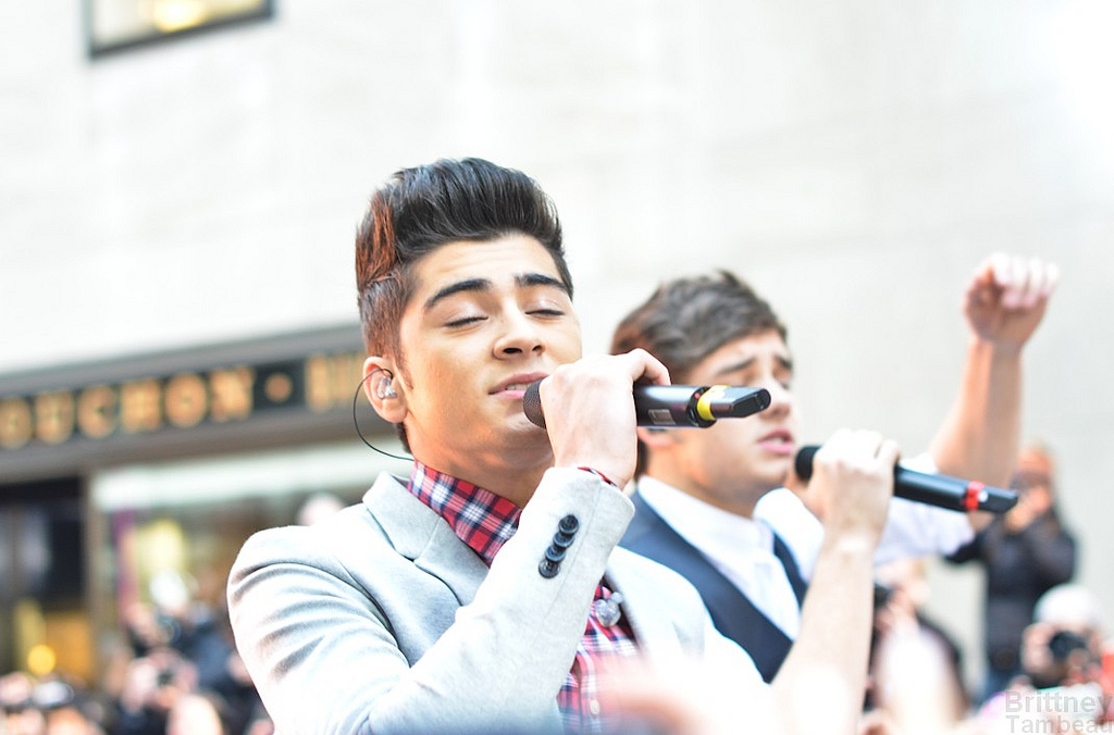 One Direction on the Today Show 13 March 2012, Zayn Malik and Liam Payne performing "More Than This"